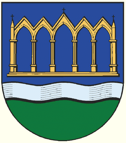 Coat of arms of Himmelpforten.